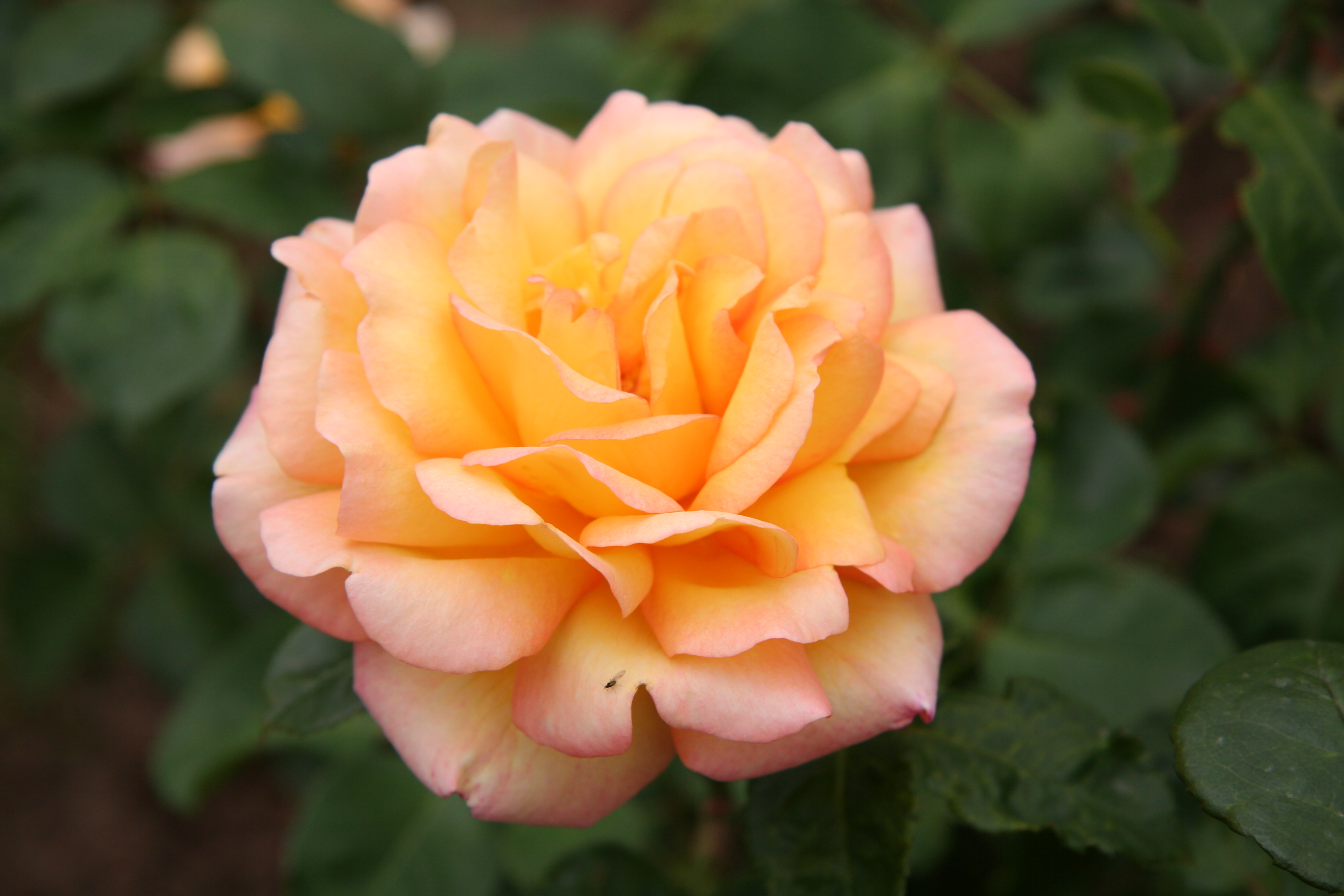 Philippe Noiret rose - Bagatelle Rose Garden (Paris, France).